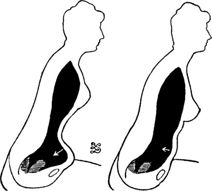 FIG. 15.—The effect of bending forward, when seated, with and without corsets.